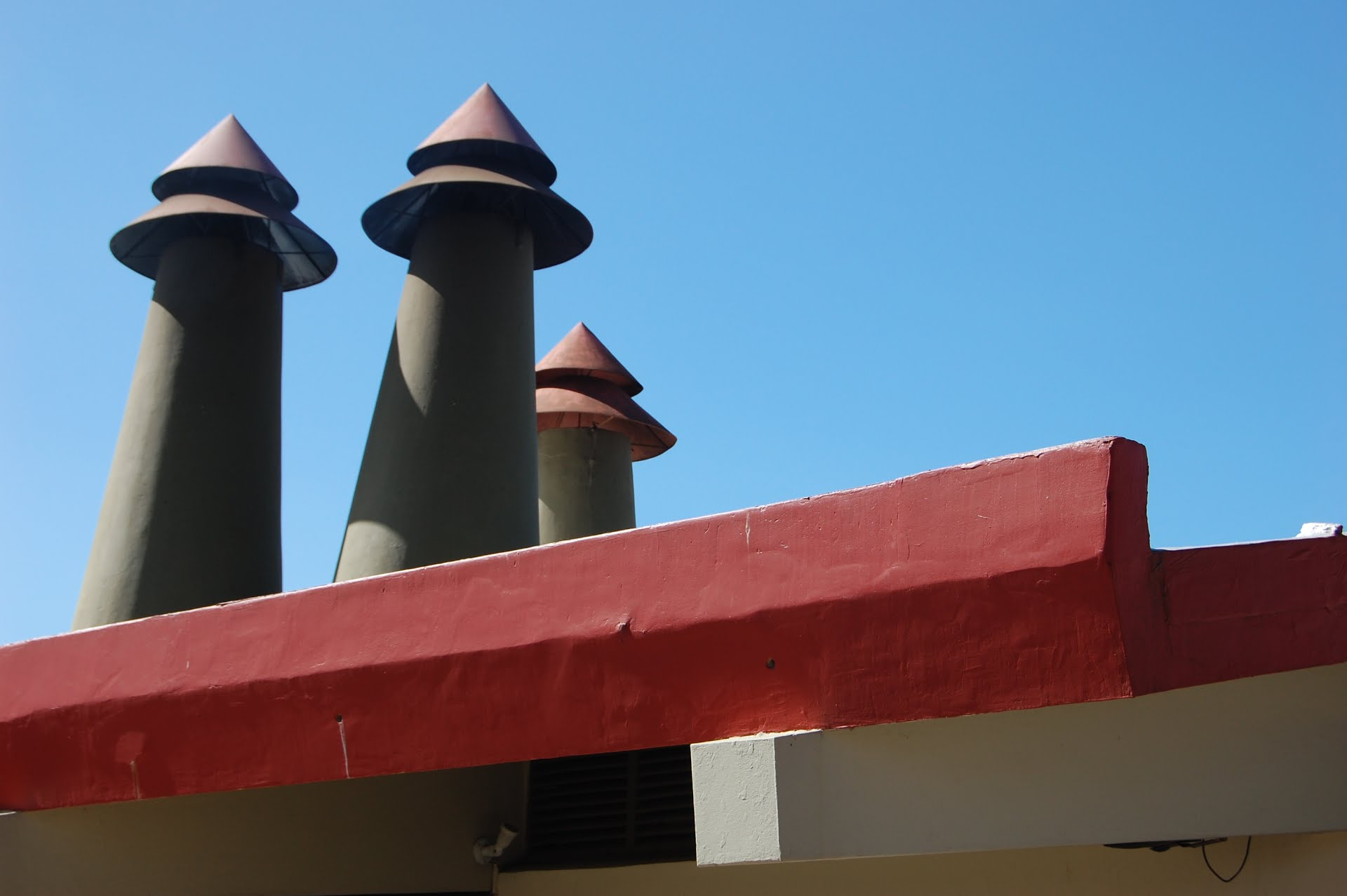 Chimneys of the Zambi restaurant, Maputo, Mozambique